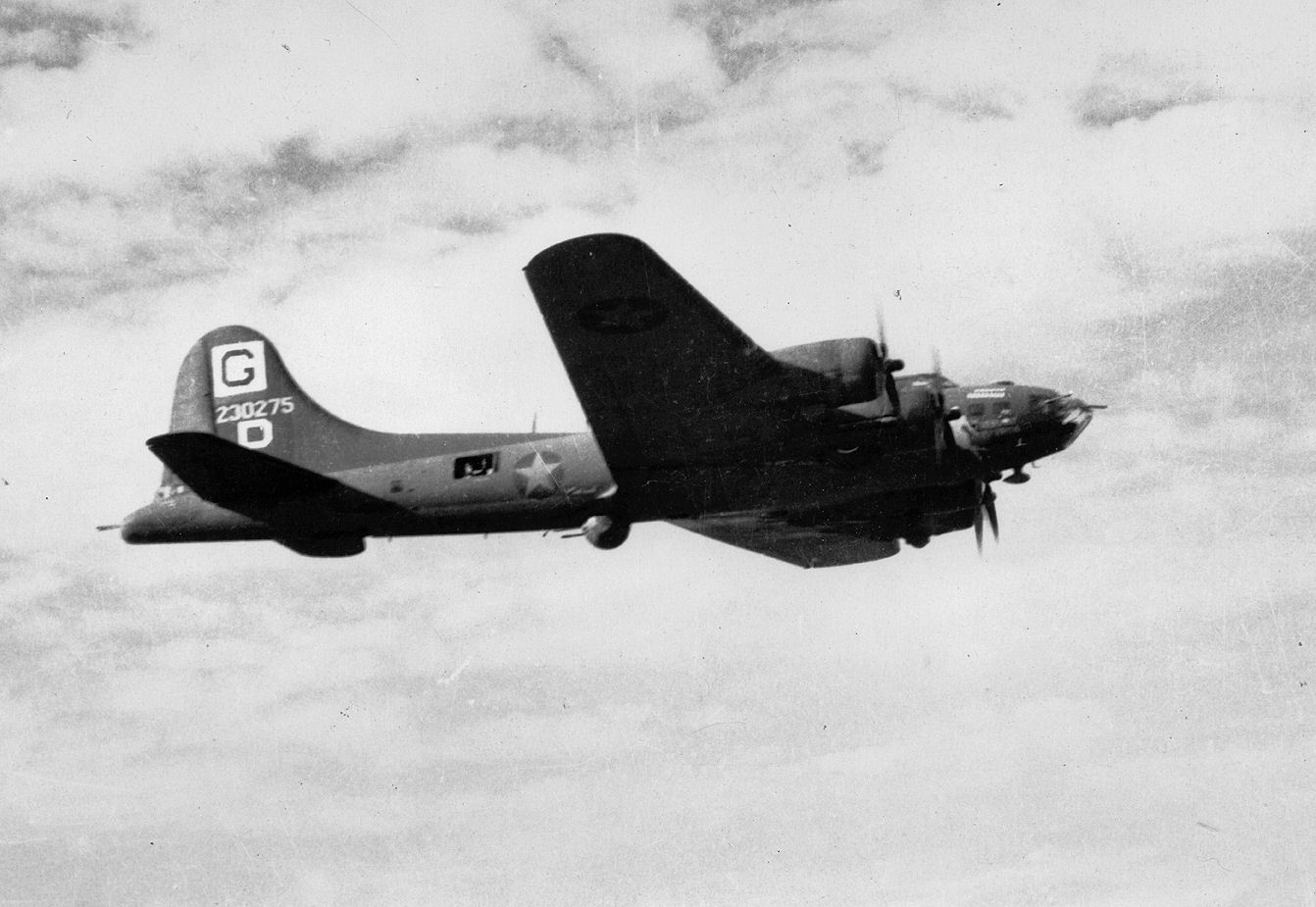 A B-17 Flying Fortress (serial number 42-30275) nicknamed "Vibrant Virgin" of the 385th Bomb Group in flight. Handwritten caption on reverse: 'HH. Vibrant Virgin, 1/Lt. John Pettenger.'